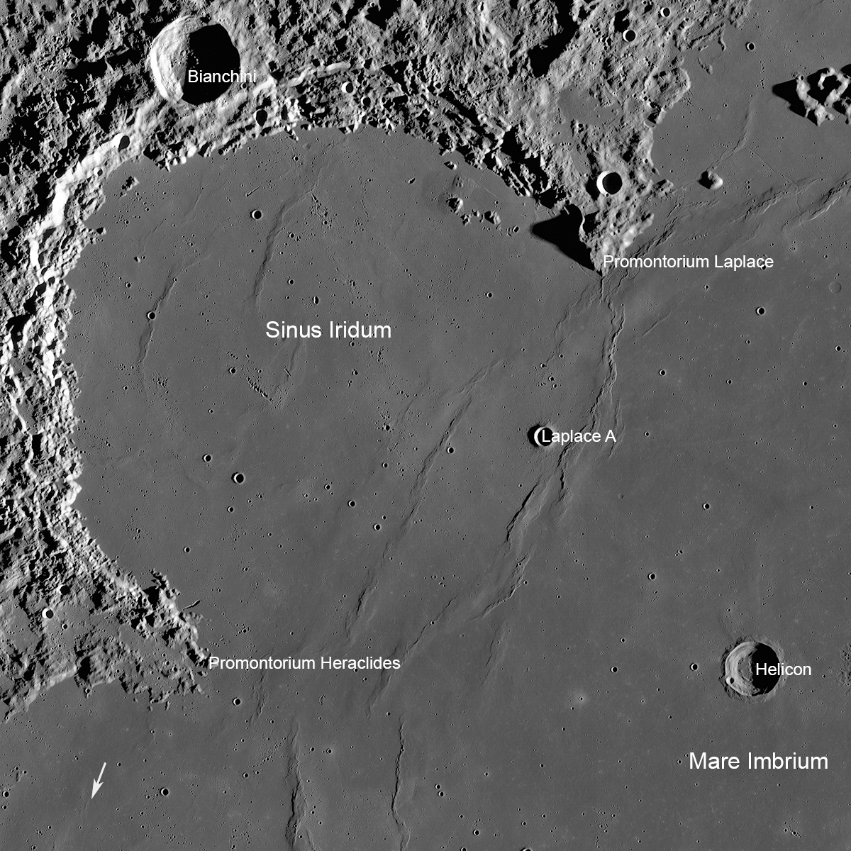 Sinus Iridum, also called "Bay of Rainbows" area of the Moon. Arrow shows location of Soviet Lunokhod 1 rover, LROC WAC mosaic is 360 km wide.